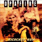 Cover of the album Opafire by an American jazz band Opafire.